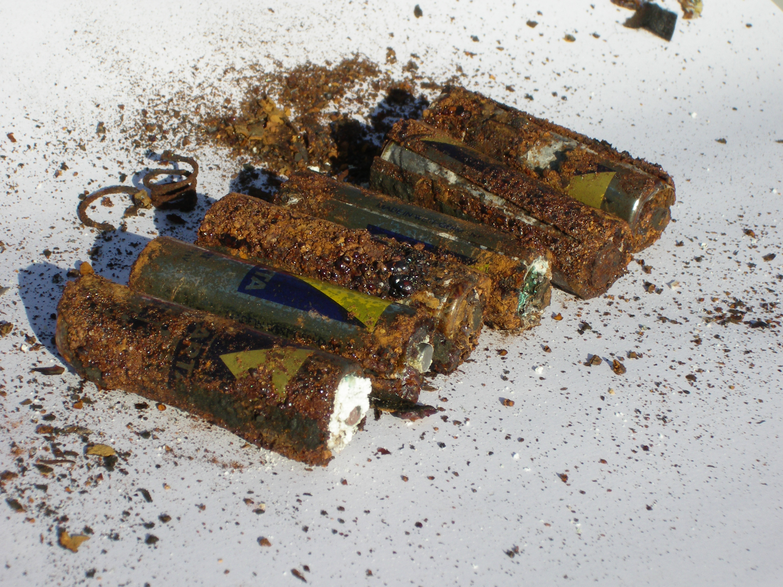 Corroded batteries that spent years inside an unused device ; View after their extraction